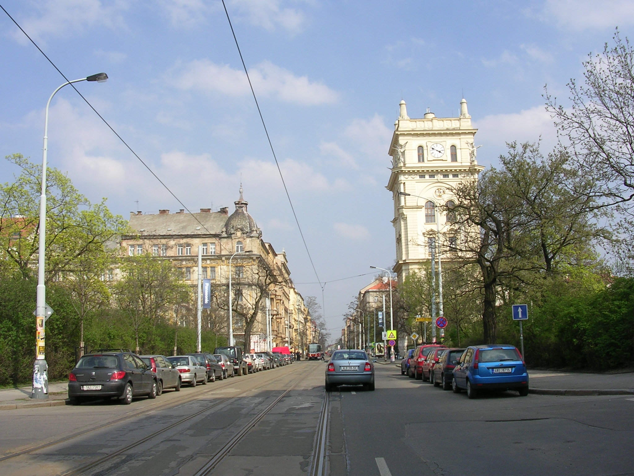 Vinohrady, Prague, the Czech Republic. Vinohrady Water Tower.